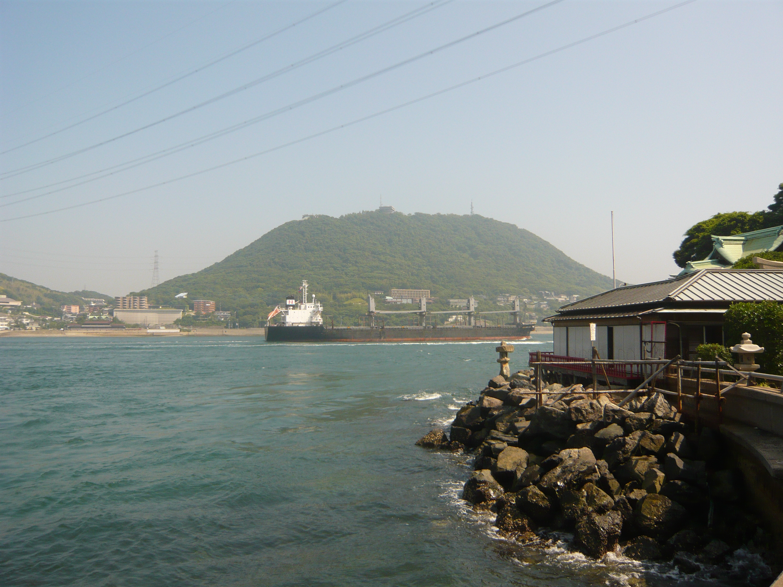 Mekari-jinja, Kitakyushu, Fukuoka, Japan